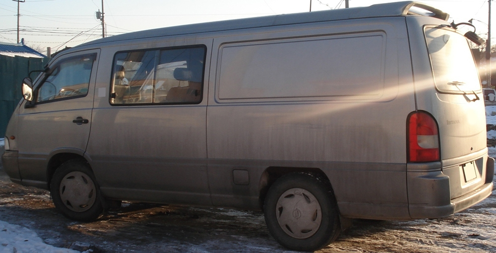 SsangYong Istana